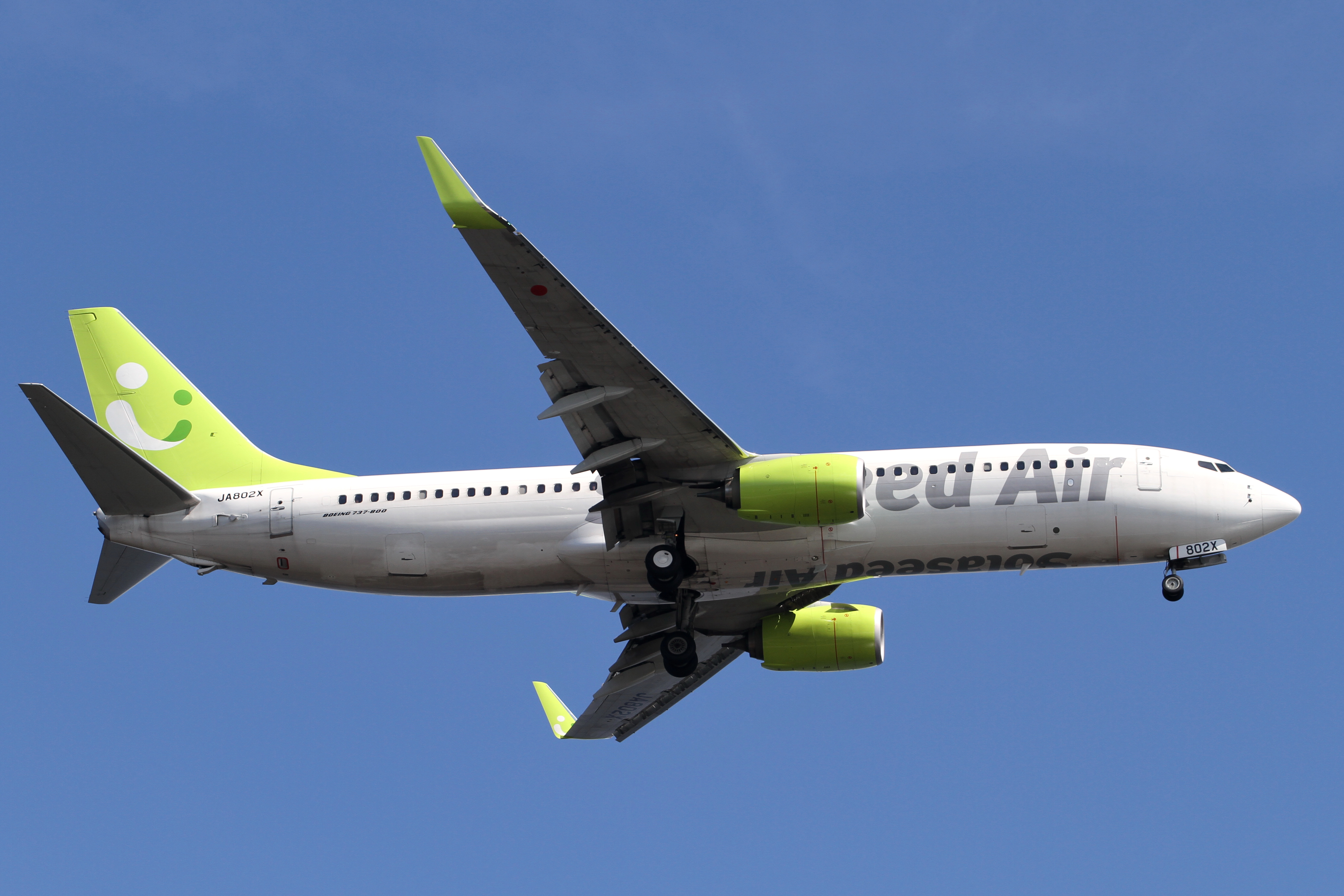 Tokyo International Airport, Boeing 737-81D, c/n:39418, Solaseed Air